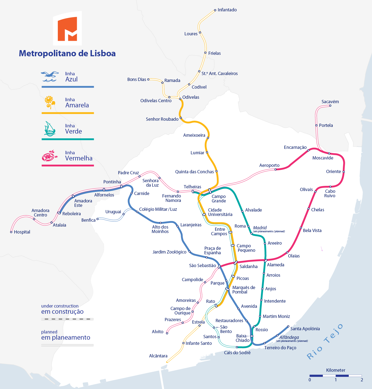 Metro Lisboa Route Map